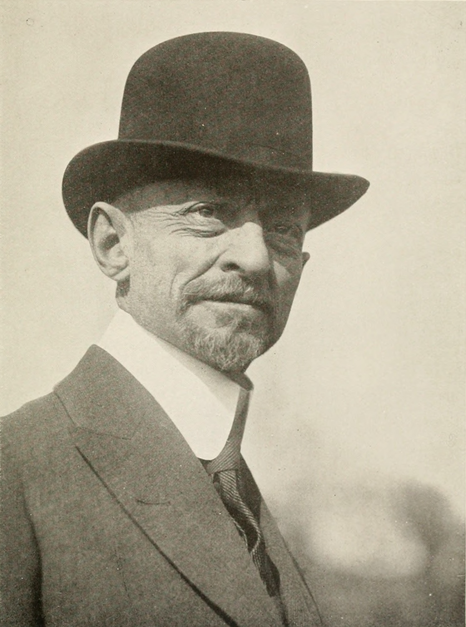 Portrait of theatrical producer Daniel Frohman